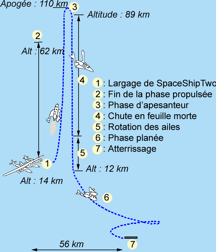 Flight of SpaceShipTwo